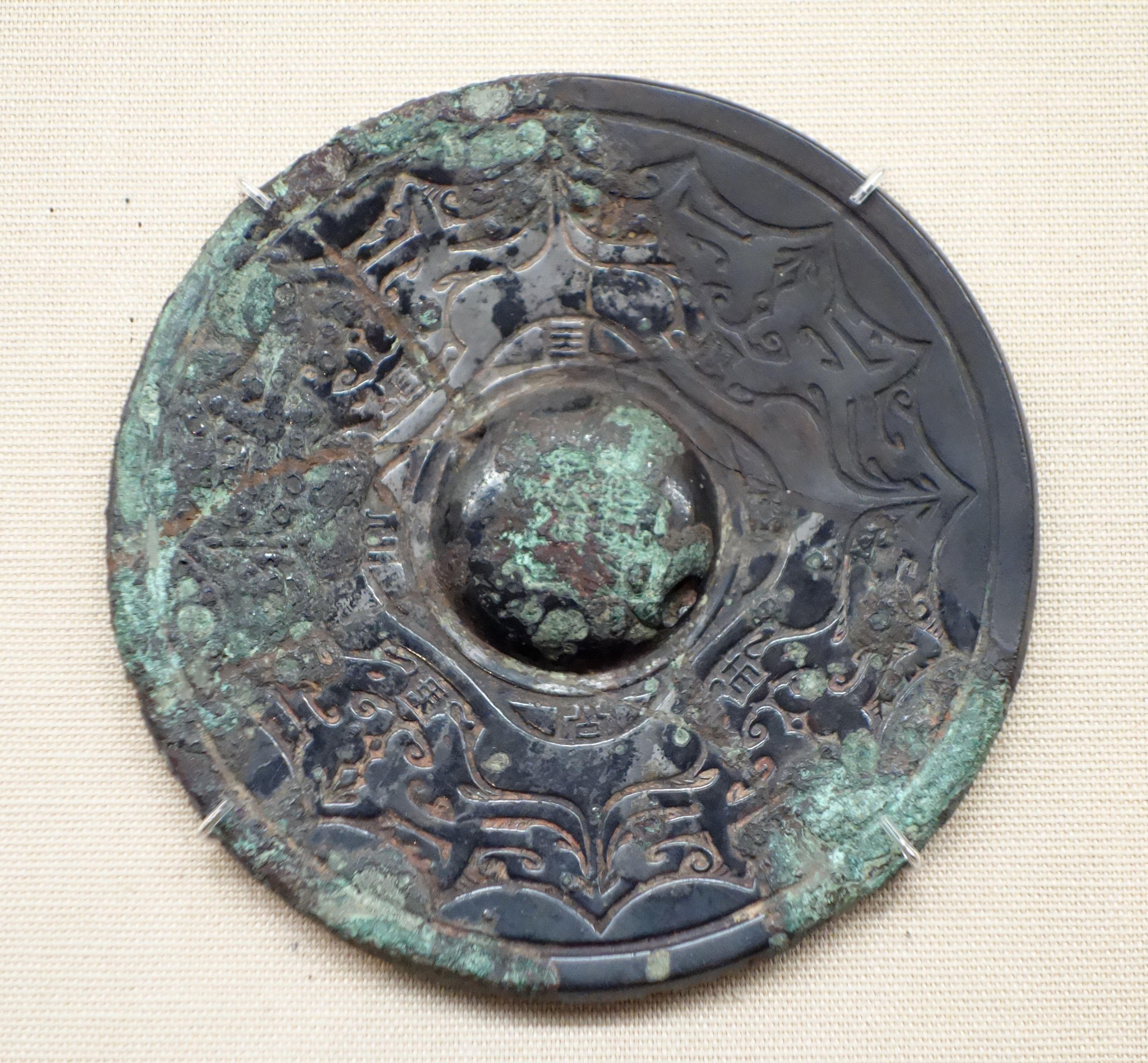 Exhibit in the Tokyo National Museum, Tokyo, Japan. This artwork is old enough so that it is in the public domain.